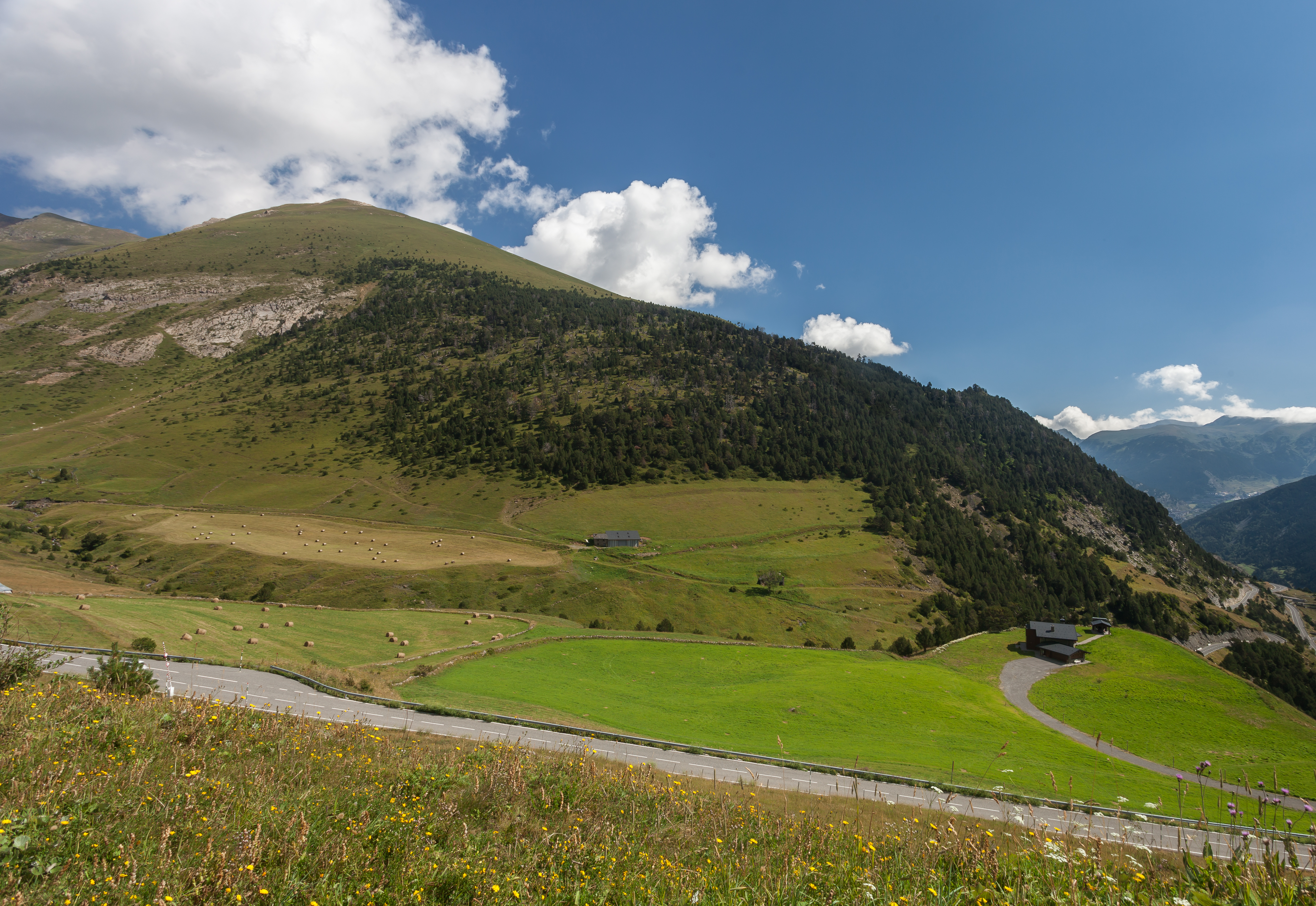 Between Coll d'Ordino and Canillo. AndorraGalego: Entre Coll d'Ordino e Canillo. Andorra.